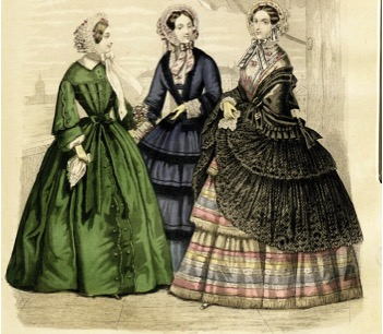 Wide sleeves. Bodices ending at natural waistline. Flounces. Wider skirts.